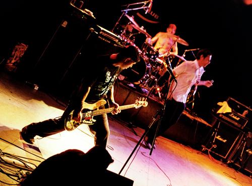 The Bouncing Souls performing on February 16, 2009 in Buenos Aires, Argentina.